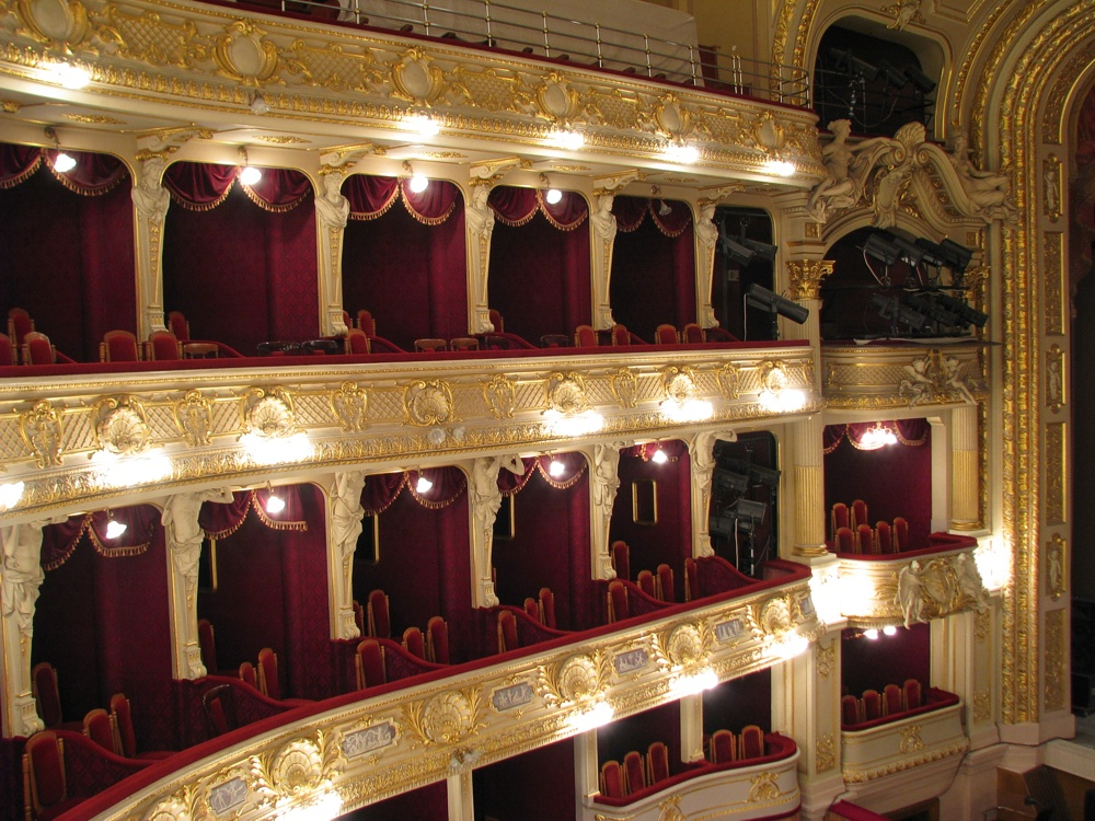 At the end of the 19th century, Lviv felt the need for a large city theatre. In 1895, the city announced an architectural competition for the best design, which attracted a large number of projects. An independent jury unhesitatingly chose the design by Zygmunt Gorgolewski, a graduate of the Berlin Building Academy and the Director of the Lwów higher art-industrial school. The Lviv Opera was opened on October 4, 1900. It was originally called the City Theater (Teatr Miejski) and later the Grand Theatre (Teatr Wielki) until it was renamed in 1939 by the Soviet occupiers for "The Lviv Theatre of Opera and Ballet". The building was erected in the classical tradition with using forms and details of Renaissance and Baroque architecture, also known as the Viennese neo-Renaissance style. The stucco mouldings and oil paintings on the walls and ceilings of the multi-tiered auditorium and foyer give it a richly festive appearance. The Opera's imposing facade is opulently decorated with numerous niches, Corinthian columns, pilasters, balustrades, cornices, statues, reliefs and stucco garlands. Standing in niches on either side of the main entrance are allegorical figures representing Comedy and Tragedy sculpted by Antoni Popiel and Tadeusz Baroncz; figures of muses embellish the top of the cornice. The theatre, beautifully decorated inside and outside, became a centrefold of the achievements in sculpture and painting of Western Europe at the end of the 19th century. The internal decoration was prepared by some of the most renowned Polish artists of the time. Among them were Stanisław Wójcik (allegorical sculptures of Poetry, Music, Fame, Fortune, Comedy and Tragedy), Julian Markowski, Tadeusz Wiśniowiecki, Tadeusz Barącz, Piotr Wojtowicz (relief depicting the coat of arms of Lviv), Juliusz Bełtowski (bas-relief of Gorgolewski) and Antoni Popiel (sculptures of Muses decorating the façade). The main curtain was decorated by Henryk Siemiradzki.